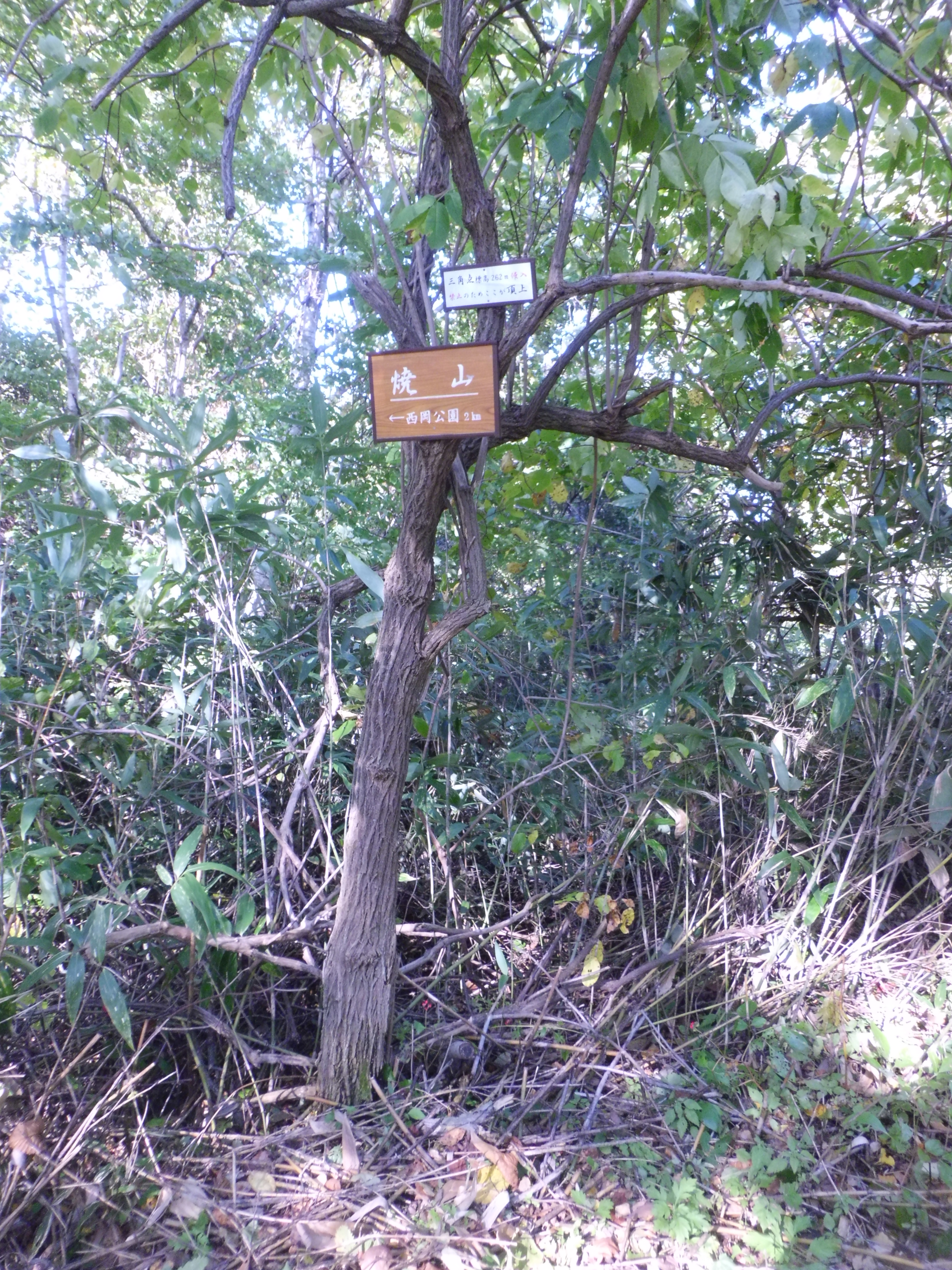 Summit of Mount Yakeyama (Toyohira-ku, Sapporo)